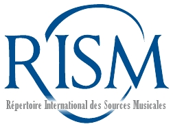 This is the official logo of the Répertoire International des Sources Musicales (RISM).